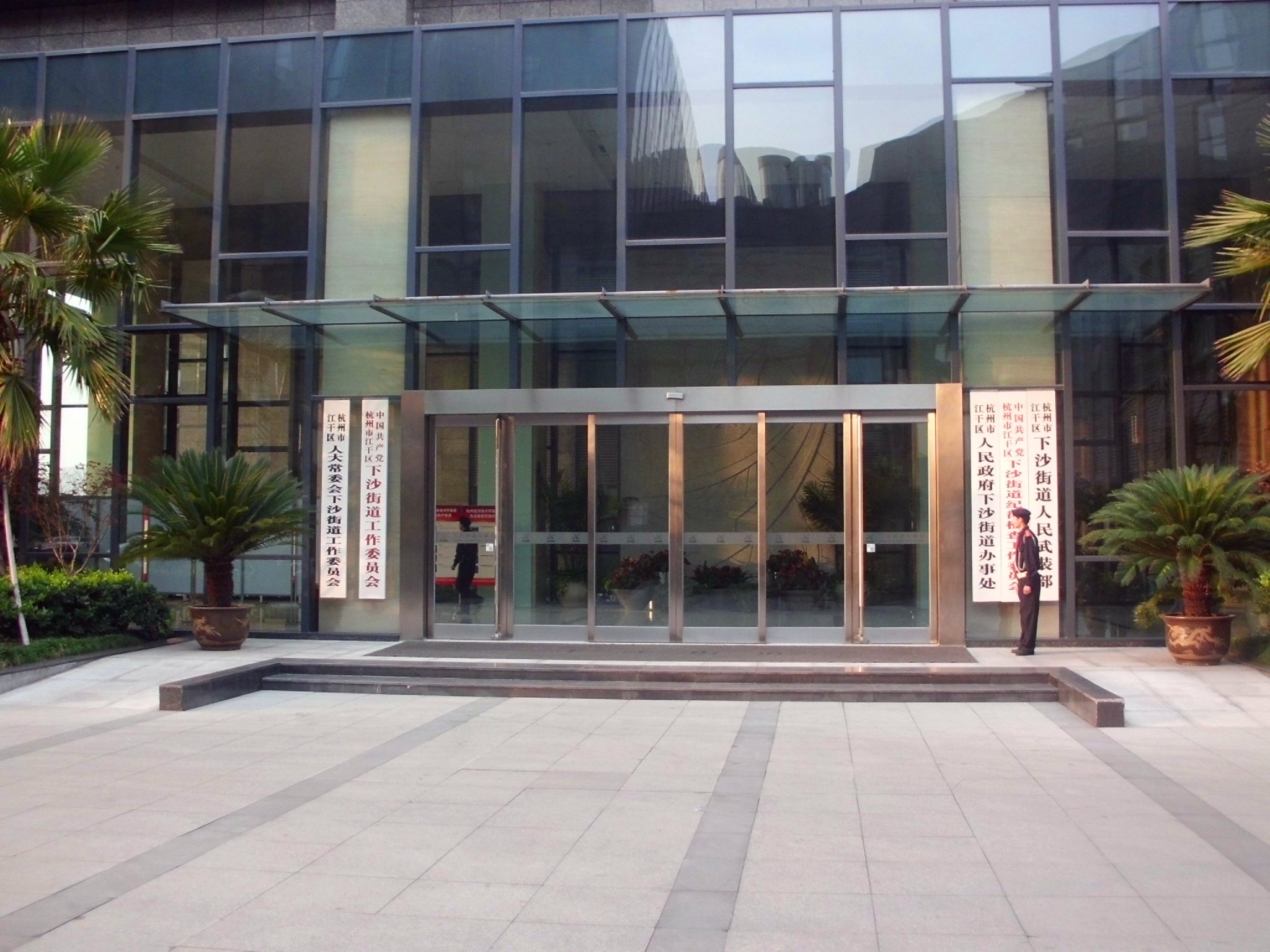 Xiasha Cultural Center